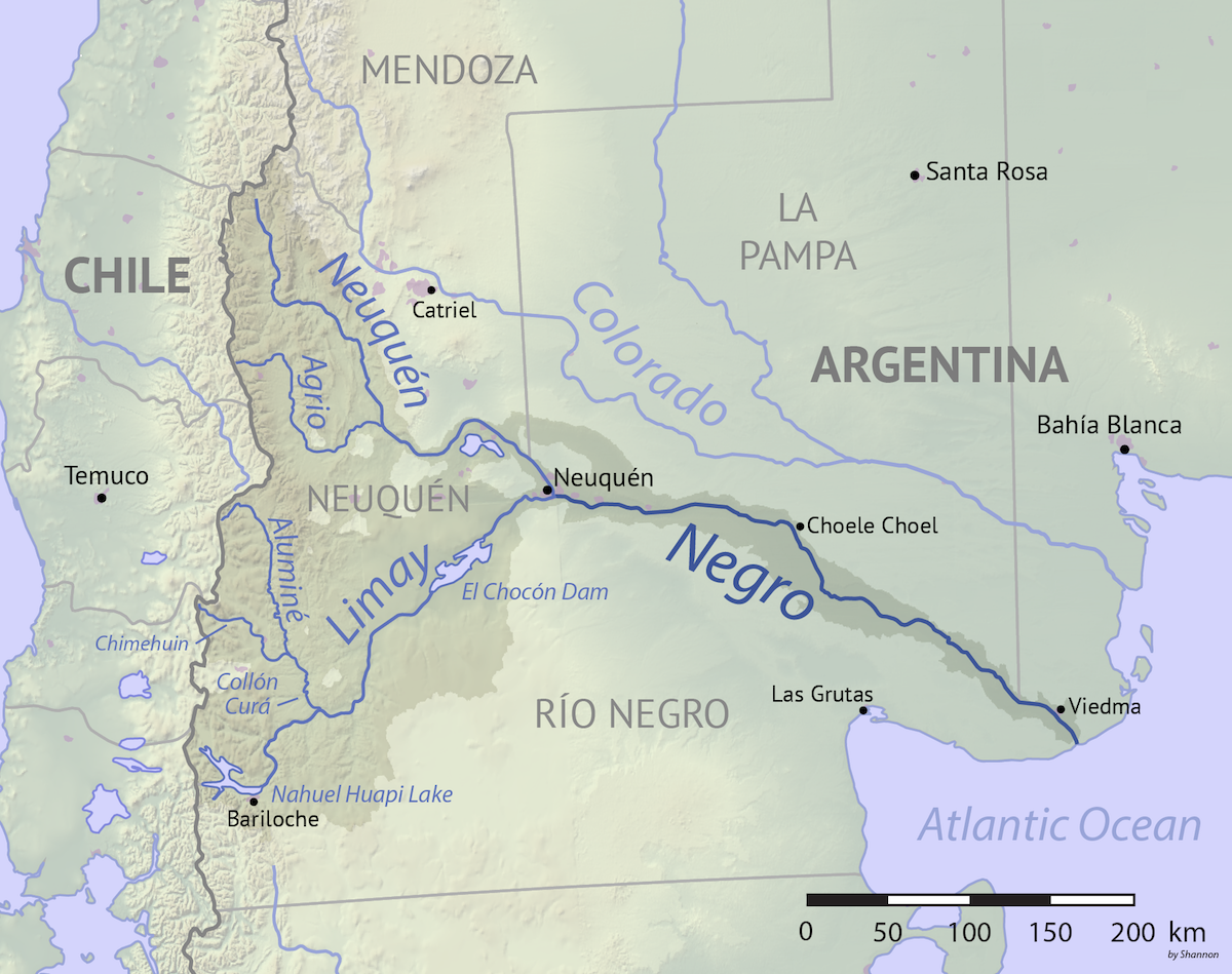 Map of the Rio Negro drainage basin, southern Argentina. Made using public domain Natural Earth and USGS data.